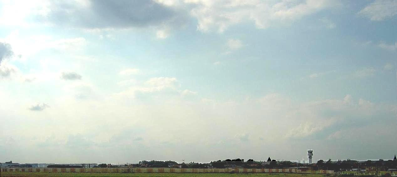 Brussels Airport skyline from the south-eastside